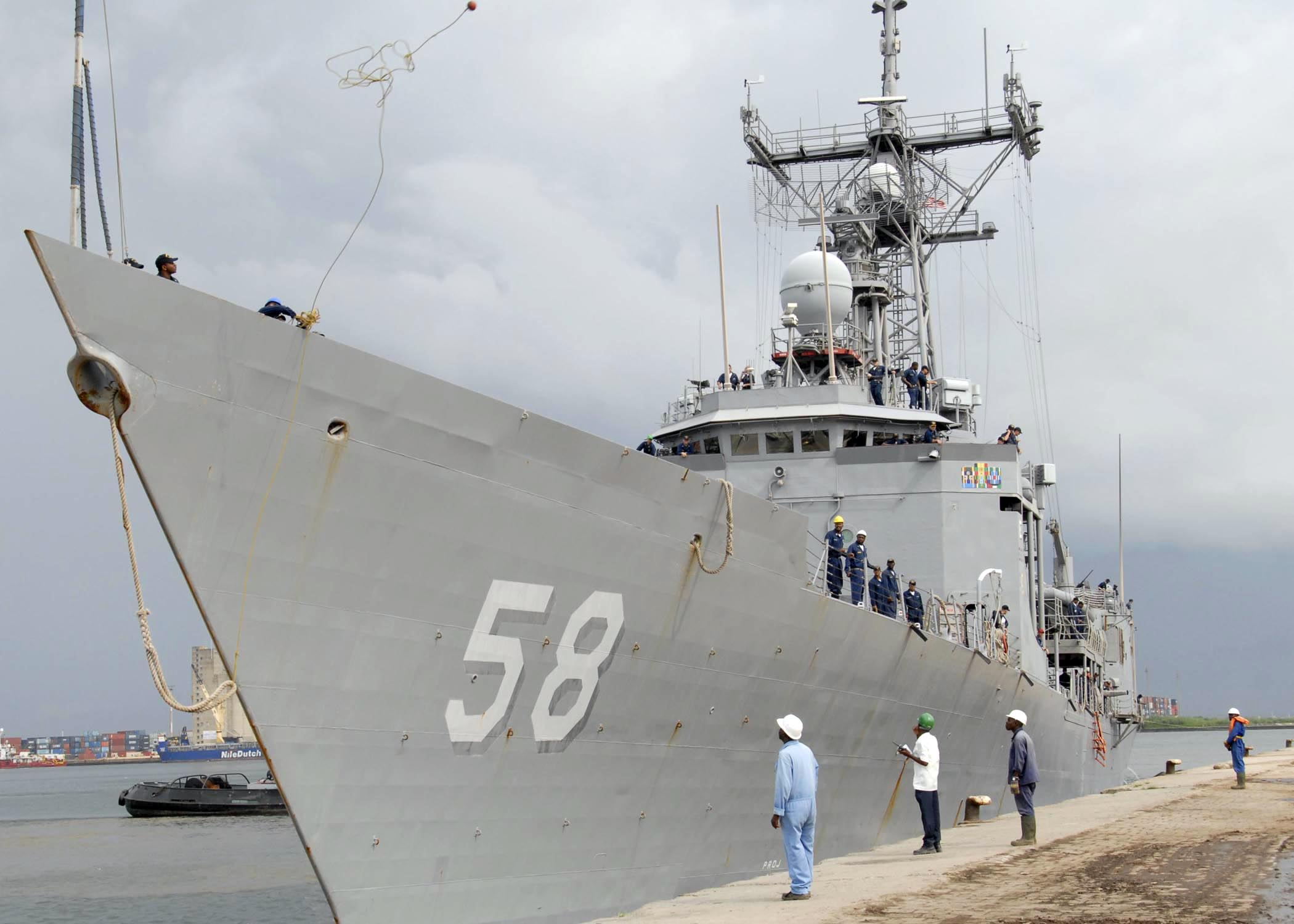 POINTE NOIRE, Republic of Congo (Jan. 18, 2010) The guided-missile frigate USS Samuel B. Roberts (FFG 58) prepares to moor for a port visit at Pointe Noire, Republic of Congo as part of Africa Partnership Station (APS) West. While in port, Samuel B. Roberts will provide training exercises and community relations projects. APS is an international initiative developed by Naval Forces Europe and Naval Forces Africa to improve maritime safety and security with African partner countries. (U.S. Navy photo by Mass Communication Specialist 1st Class Terry Spain/Released)